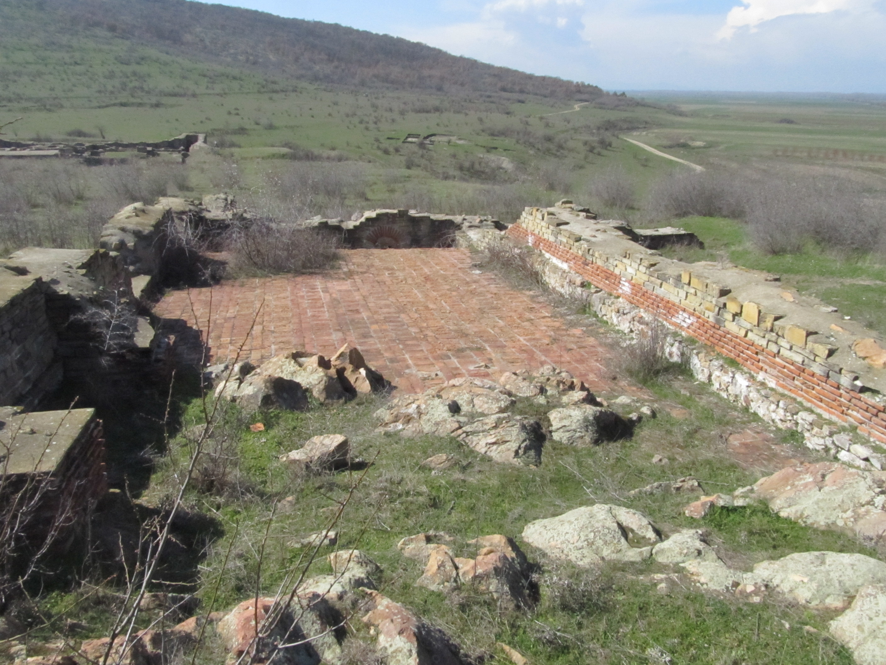 Remains of the fortress "Kaleto" near the town of Bolyarovo